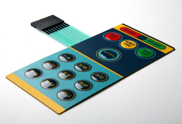 Example of membrane keyboard.